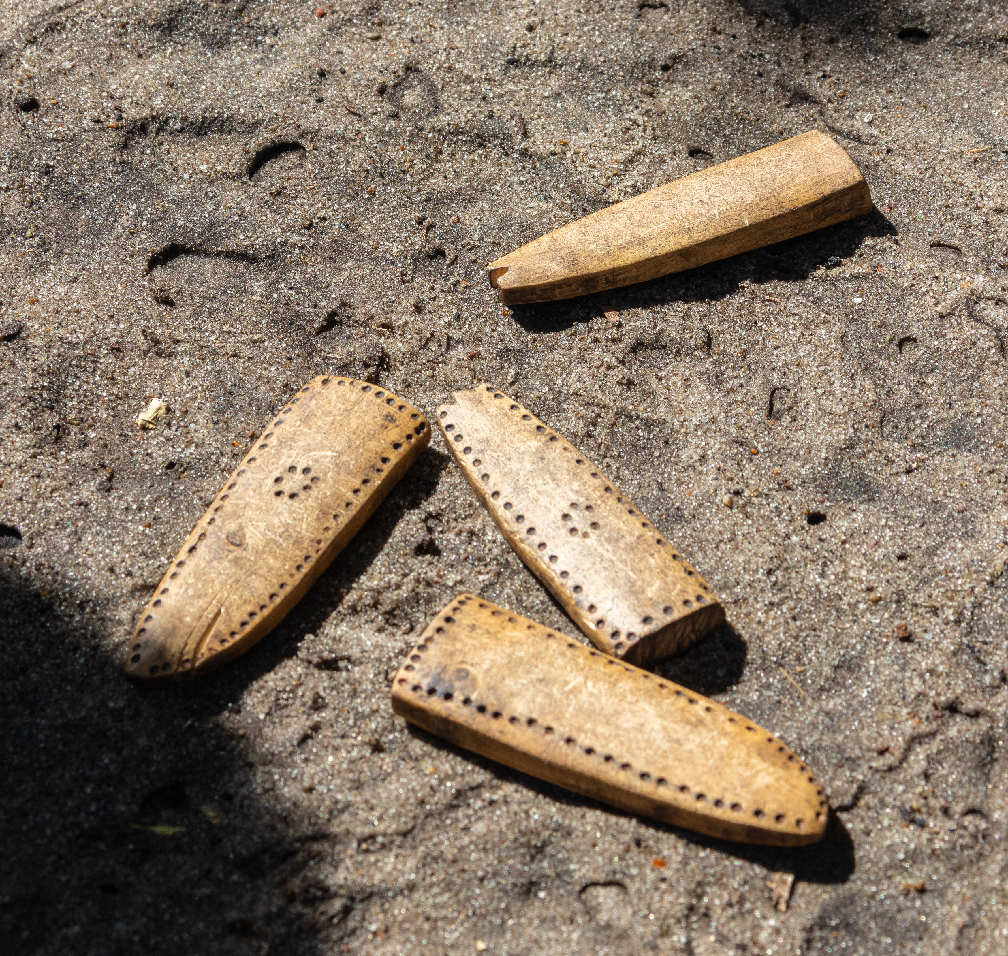 Reading of a fortune-teller, Gweta, Botswana